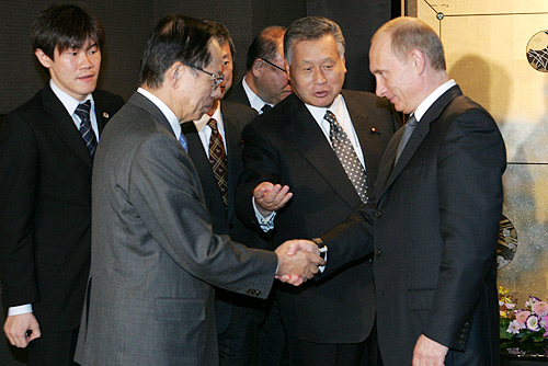 Vladimir Putin, President, met Yasuo Fukuda and Yoshirō Mori, Members of the House of Representatives, in Tōkyō Metropolis, on November 21, 2005.